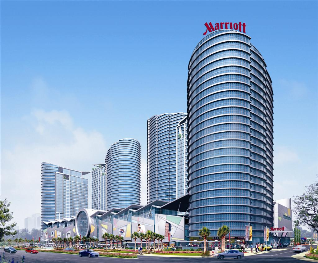 Nanning Marriott